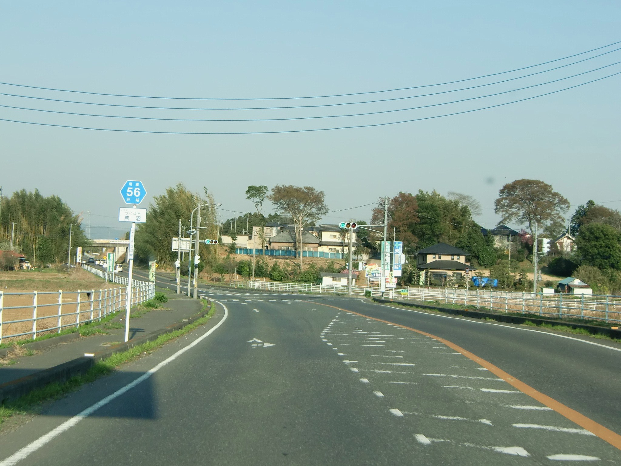 Ibaraki prefectural road 56(Tsukuba-Koga line) in Yoshinuma, Tsukuba-city, Japan. This picture was taken near Aikokubashi-bridge, which is border of Tsukuba and Shimotuma-city.